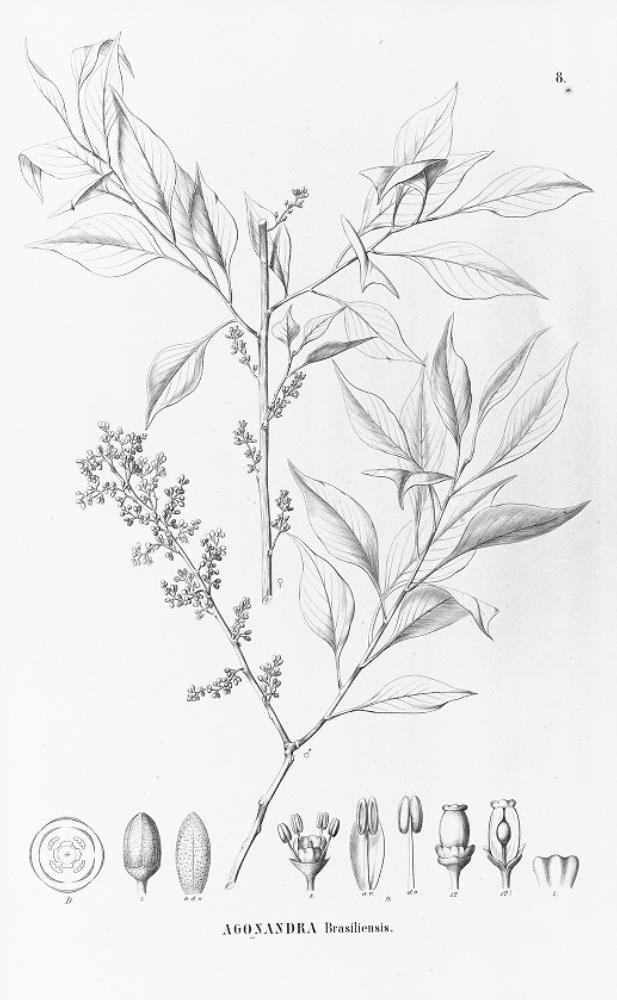 Illustration of Agonandra brasiliensis